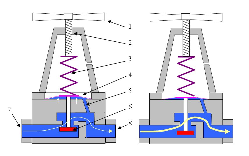 working principle of pressure reducer